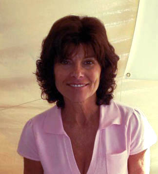 Adrienne Barbeau. She looks good, but skinny. Her twins that she had as an older mom are now eight (I asked).